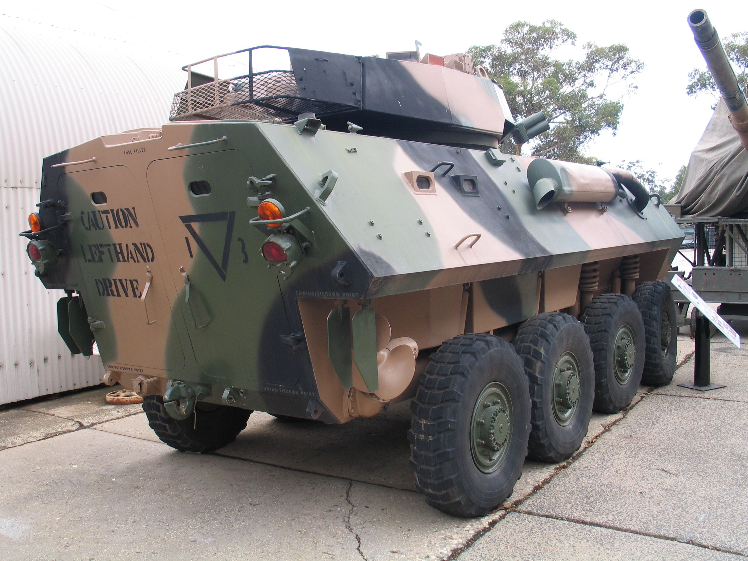 ex US MArine Corps LAV-25 Evaluation vehicle formerly from Asqdn 2Cav in Royal Australian Armoured Corps Tank Museum, Puckapunyal, Victoria, Australia.